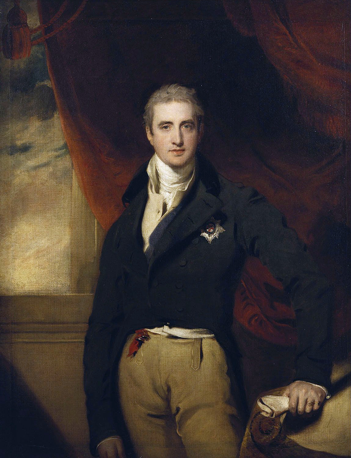 Portrait of Robert Stewart, Viscount Castlereagh, later 2nd Marquess of Londonderry